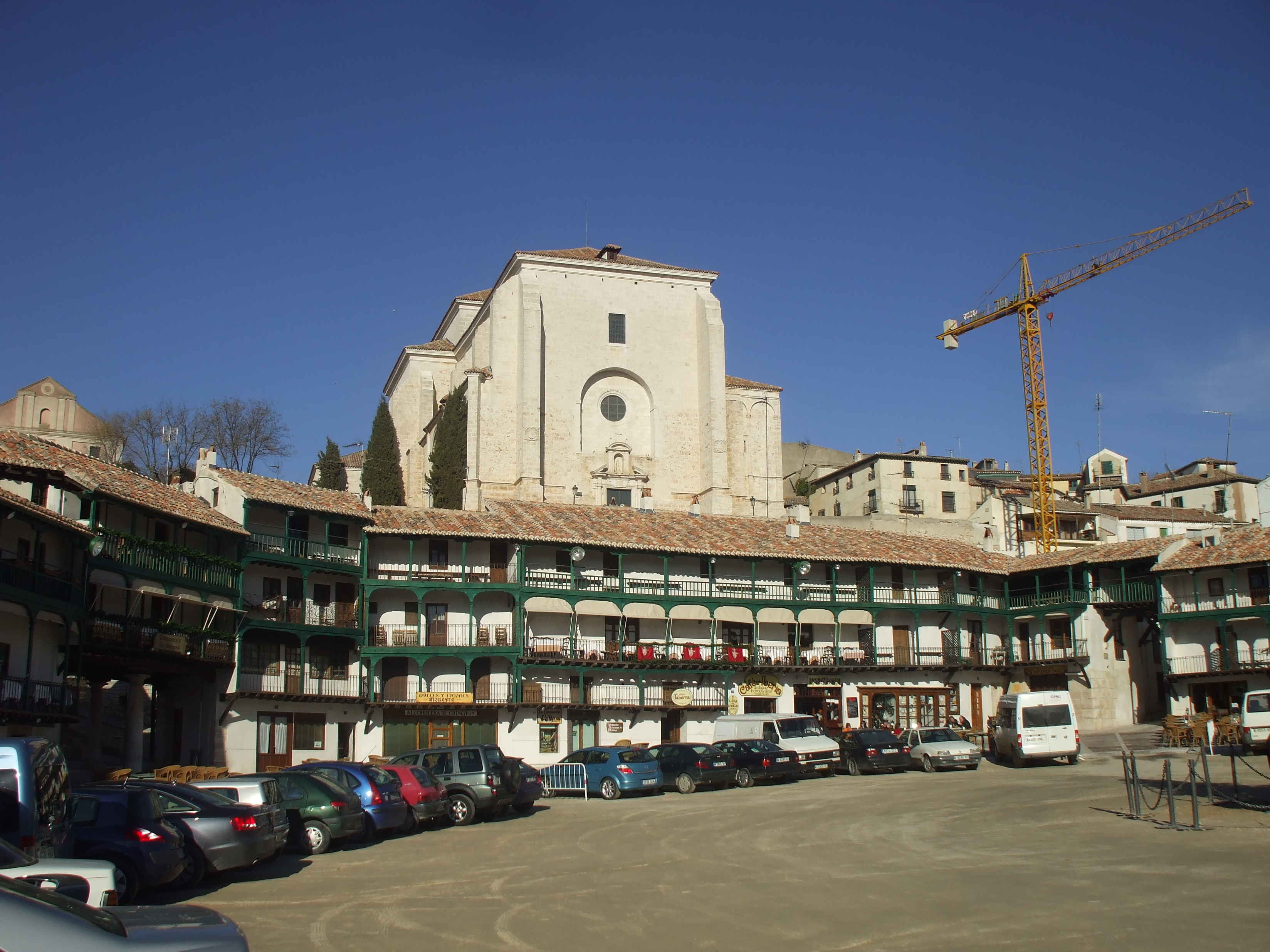 Plaza Mayor in Chinchón with Christmas decorations December 2008.